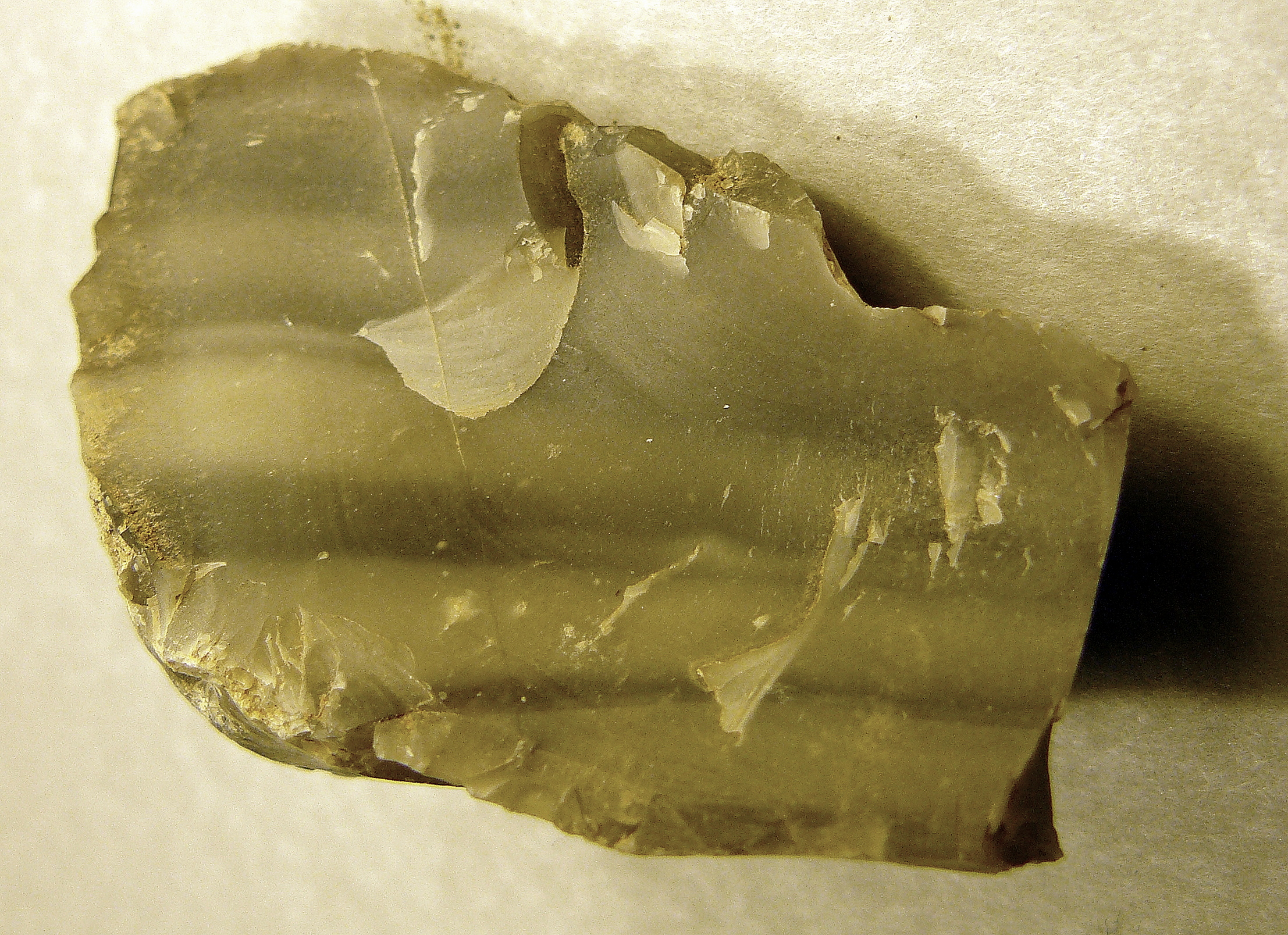 flintstone from North-Germany (boulder clay)